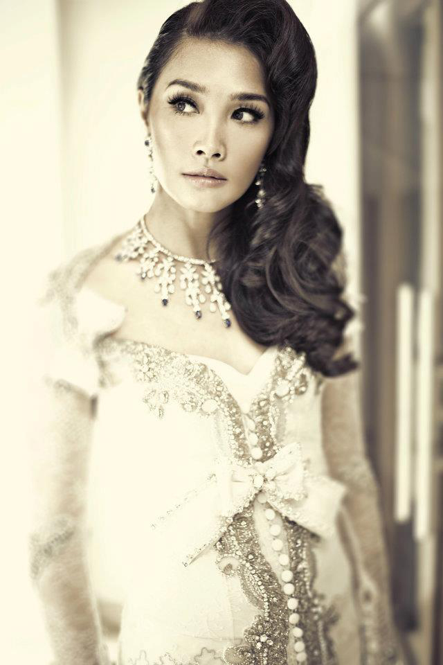 Scha Alyahya, Malaysian actress, model and TV host.